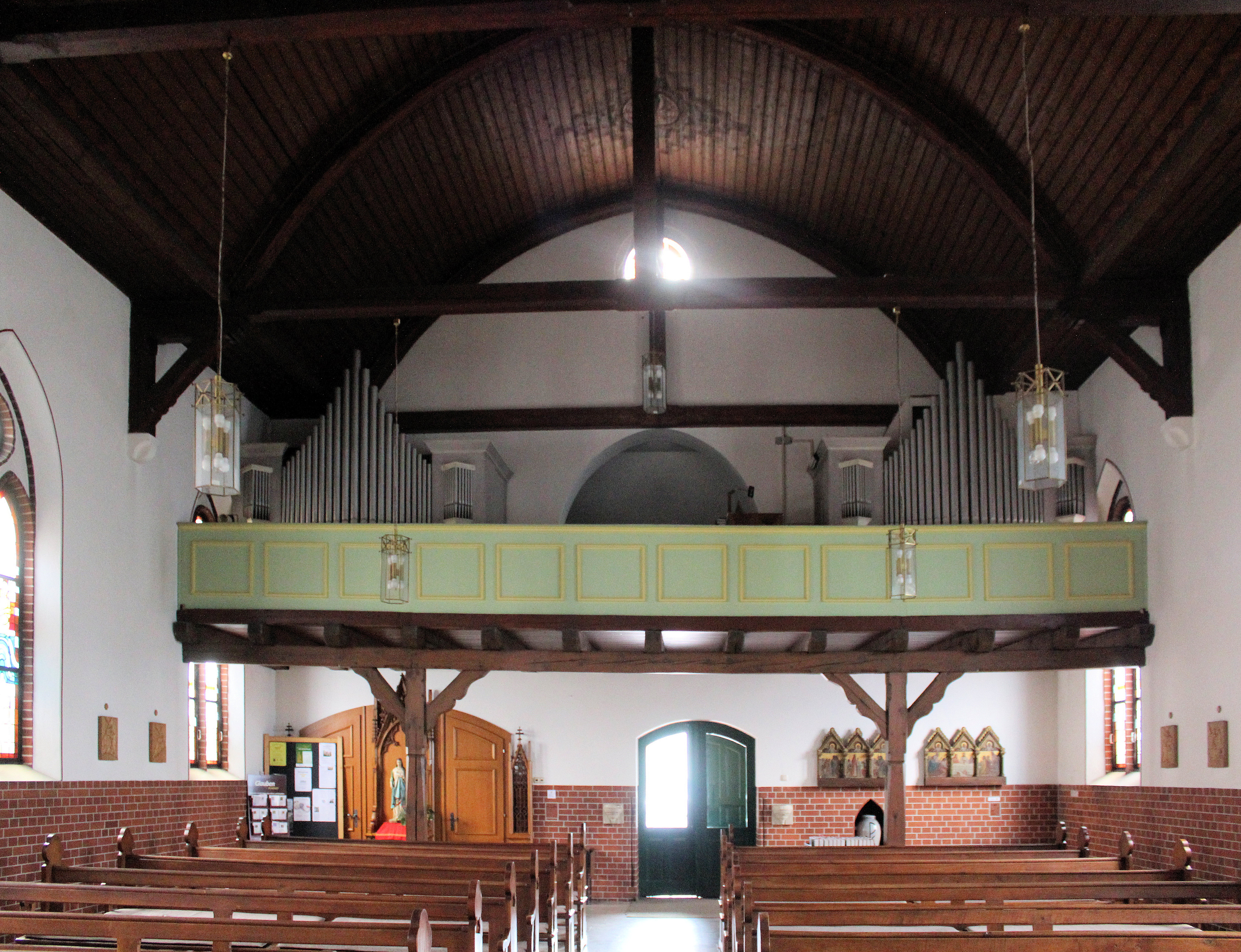 Lüchow (Wendland), Saint Agnes church, inner view